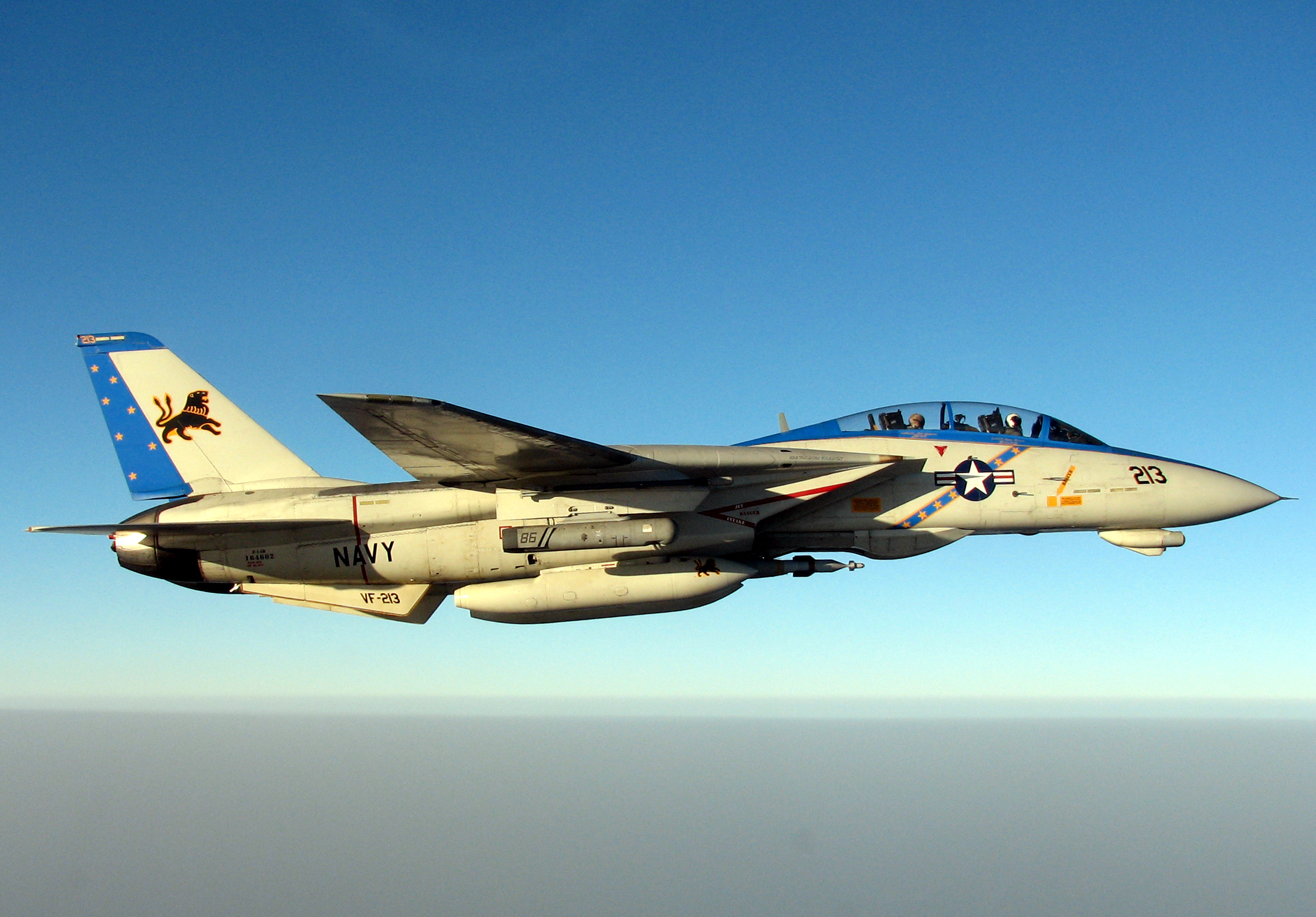 Persian Gulf (Oct. 10, 2005) – A specially painted F-14D Tomcat, assigned to the “Blacklions” of Fighter Squadron Two One Three (VF-213), conducts a mission over the Persian Gulf. VF-213 is assigned to Carrier Air Wing Eight (CVW-8), currently embarked aboard the Nimitz-class aircraft carrier USS Theodore Roosevelt (CVN 71). U.S. Navy photo by Lt.j.g. Scott Timmester (RELEASED)